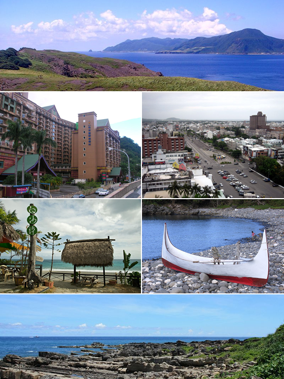 Montage of various Taitung County images.